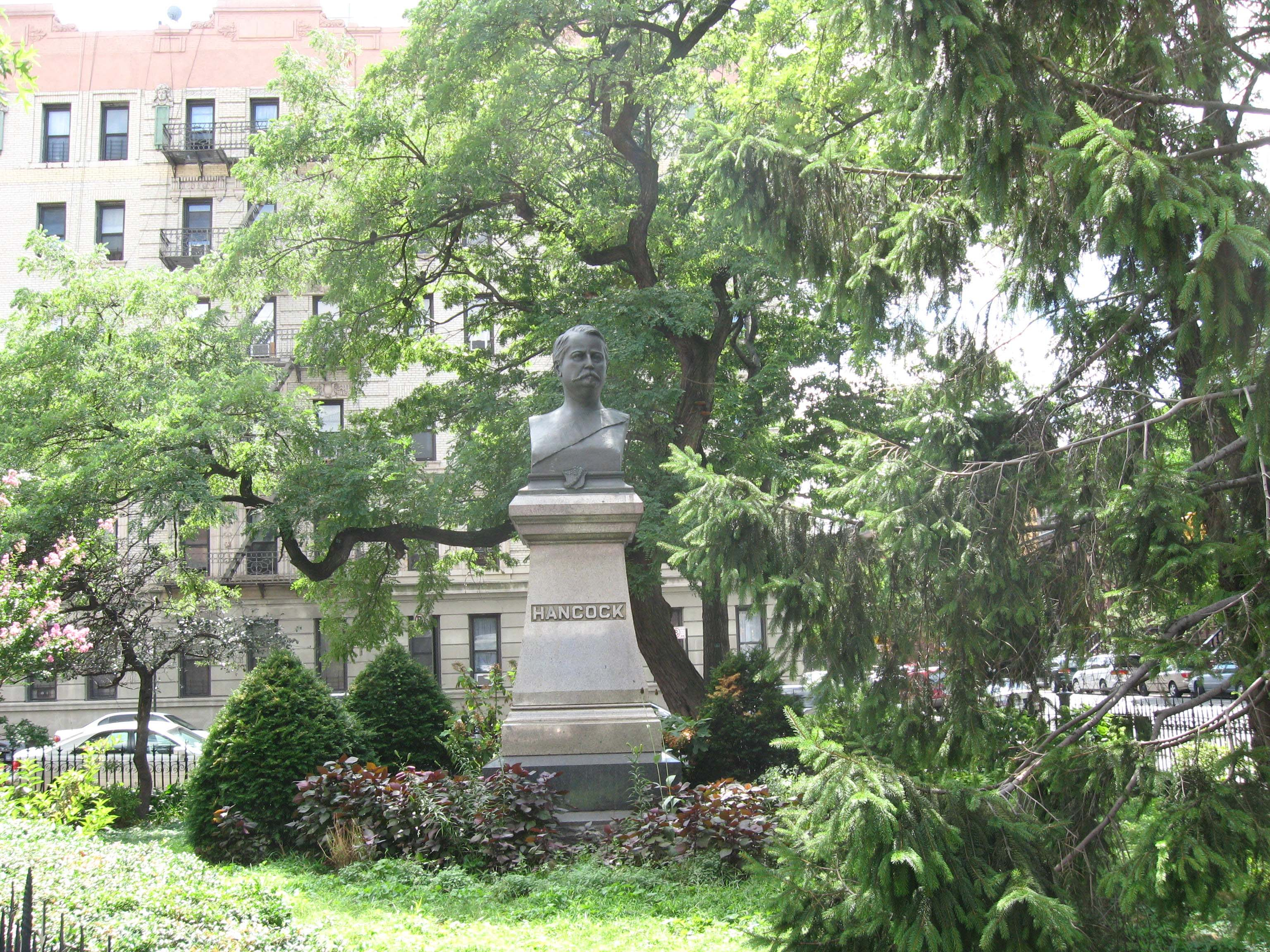 Looking south from St Nicholas Avenue into Winfield Hancock Park at the statue of Winfield Scott Hancock on a sunny midday at 124th Street. The sculptor was James Wilson Alexander MacDonald